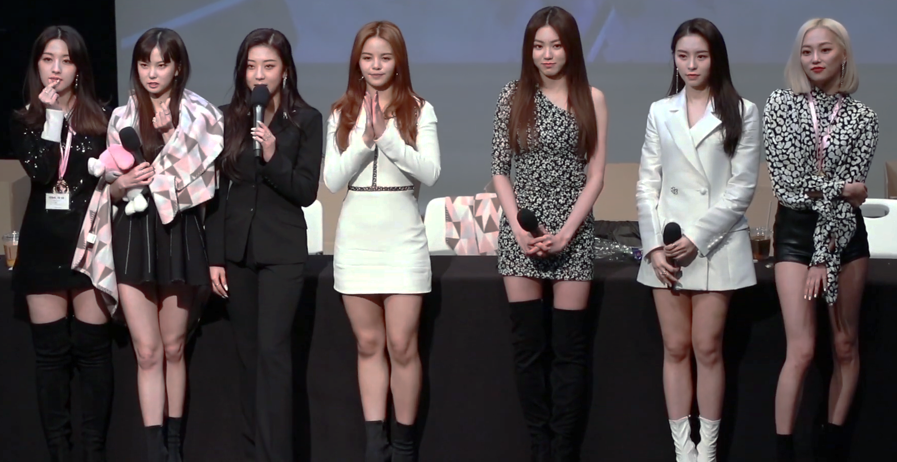 South Korean girl group CLC at a fansign for their 2019 EP No. 1 in Guro District, Seoul, South Korea